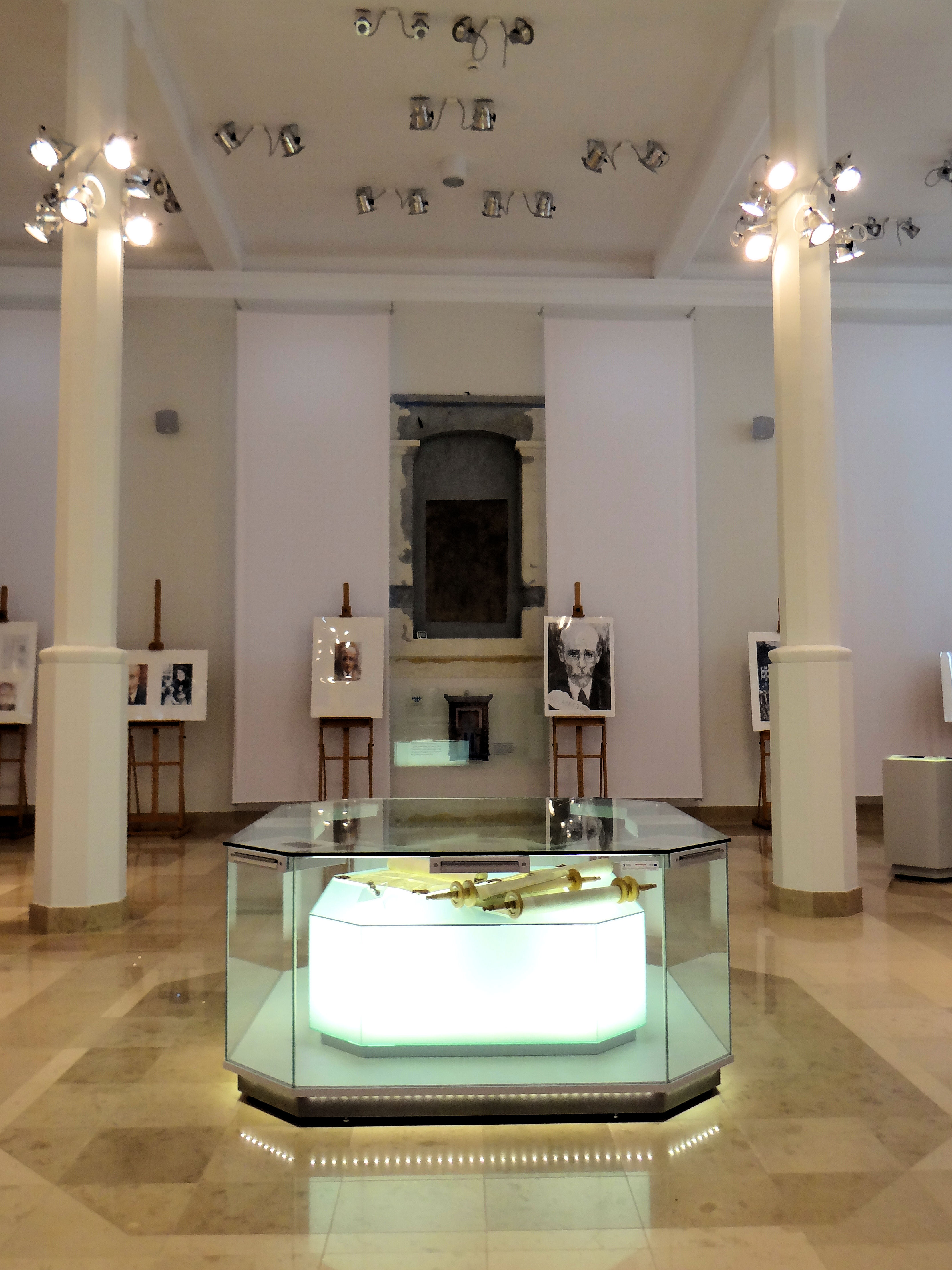 Museum of The Jews of Mazovia in Plock